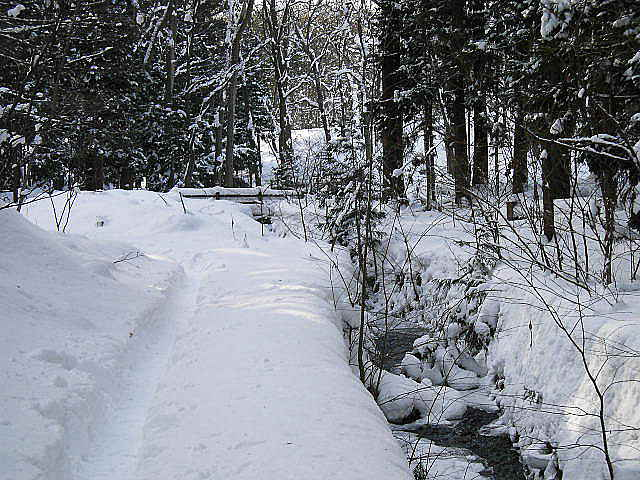 Maruyama River, Sapporo, Hokkaido prefecture, Japan.